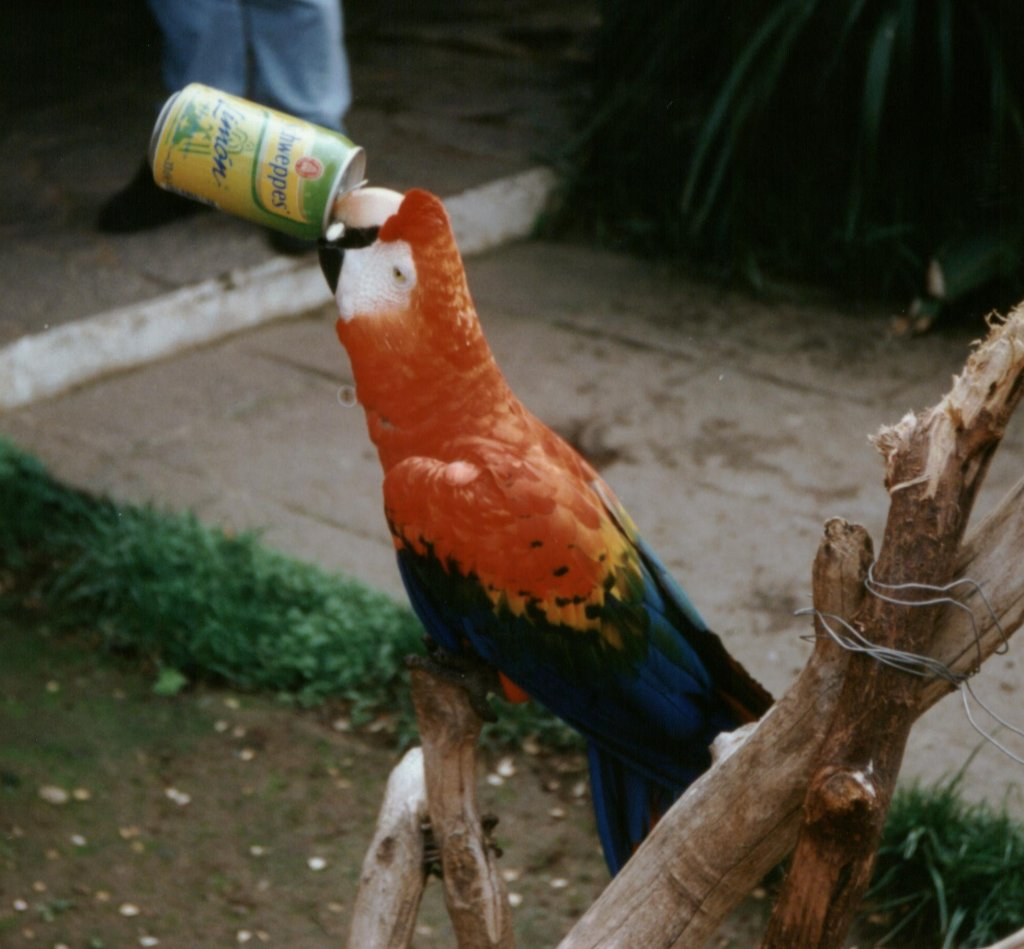 Parrot drinking soda. In Icod de los Vinos (Tenerife, Spain).